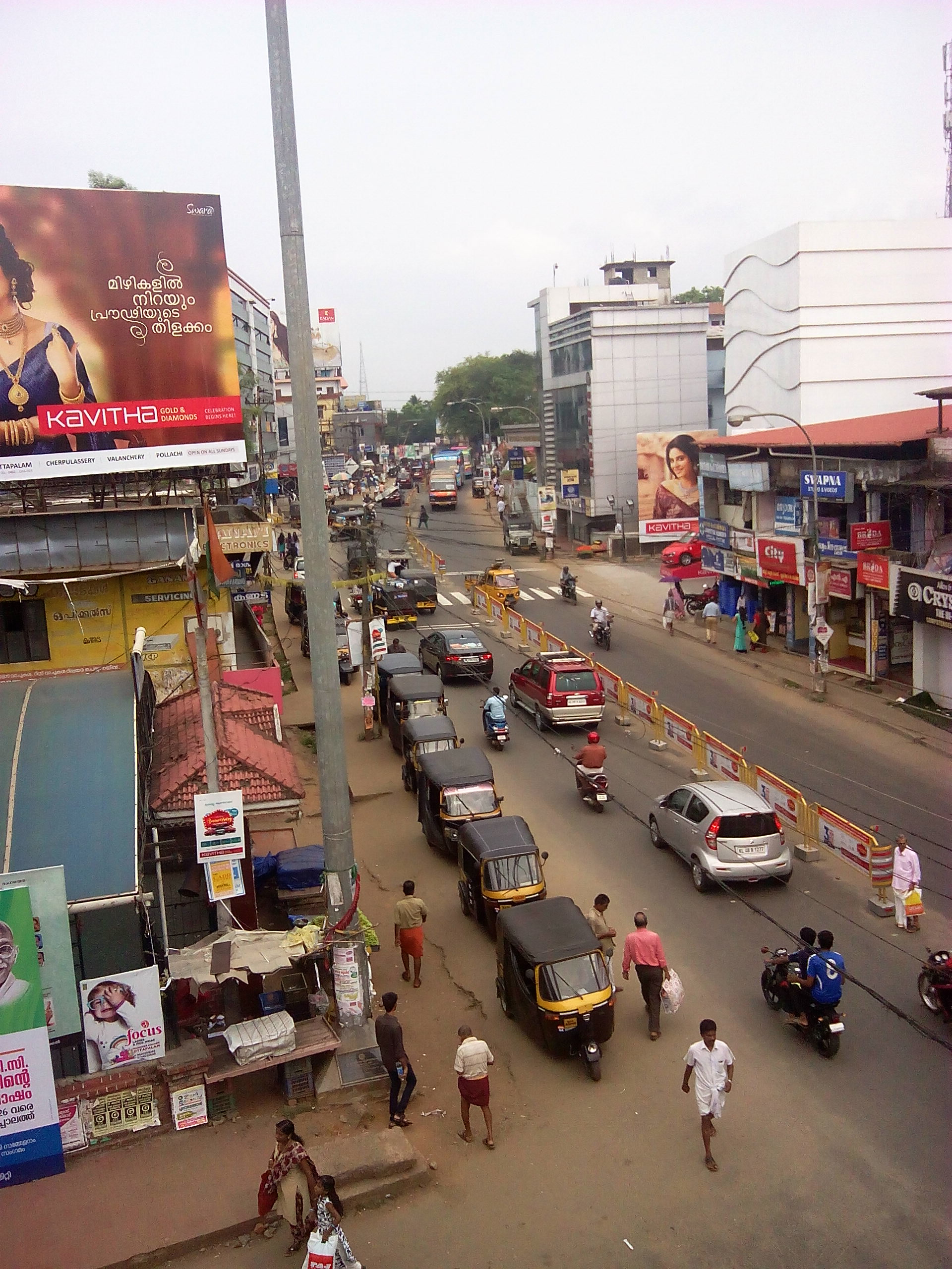 Ottapalam Road view near busstand.